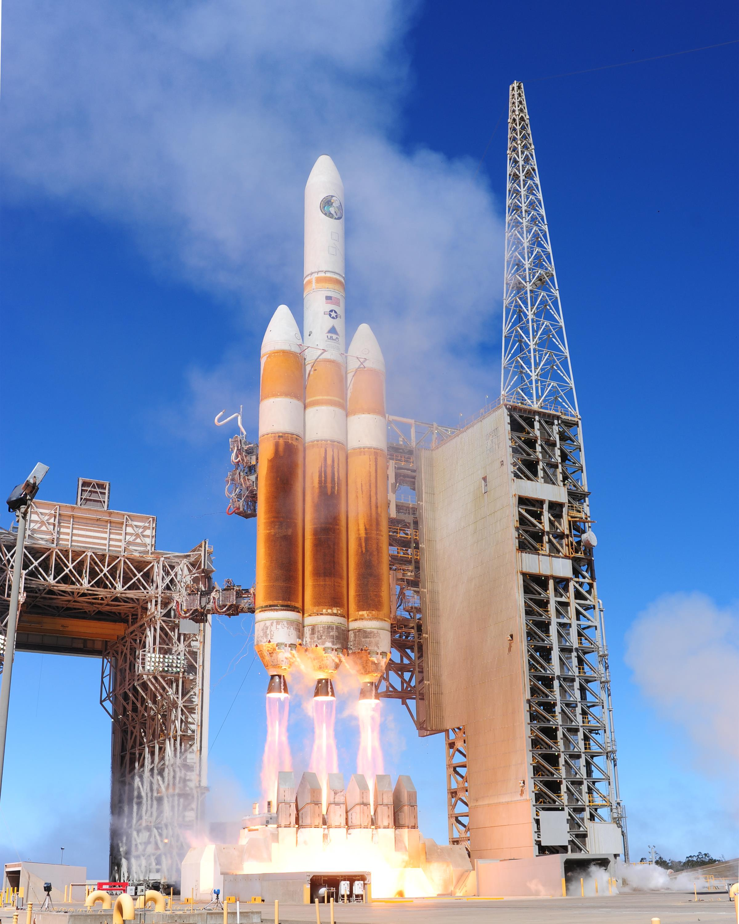 A United Launch Alliance Delta IV-Heavy rocket carrying a National Reconnaissance Office payload launches Aug. 28, 2013, from Space Launch Complex-6 at Vandenberg Air Force Base, Calif. This was the second Delta IV-Heavy launch for Vandenberg AFB, with the first occurring Jan. 20, 2011. The rocket is the largest to ever launch from the West Coast of the United States.